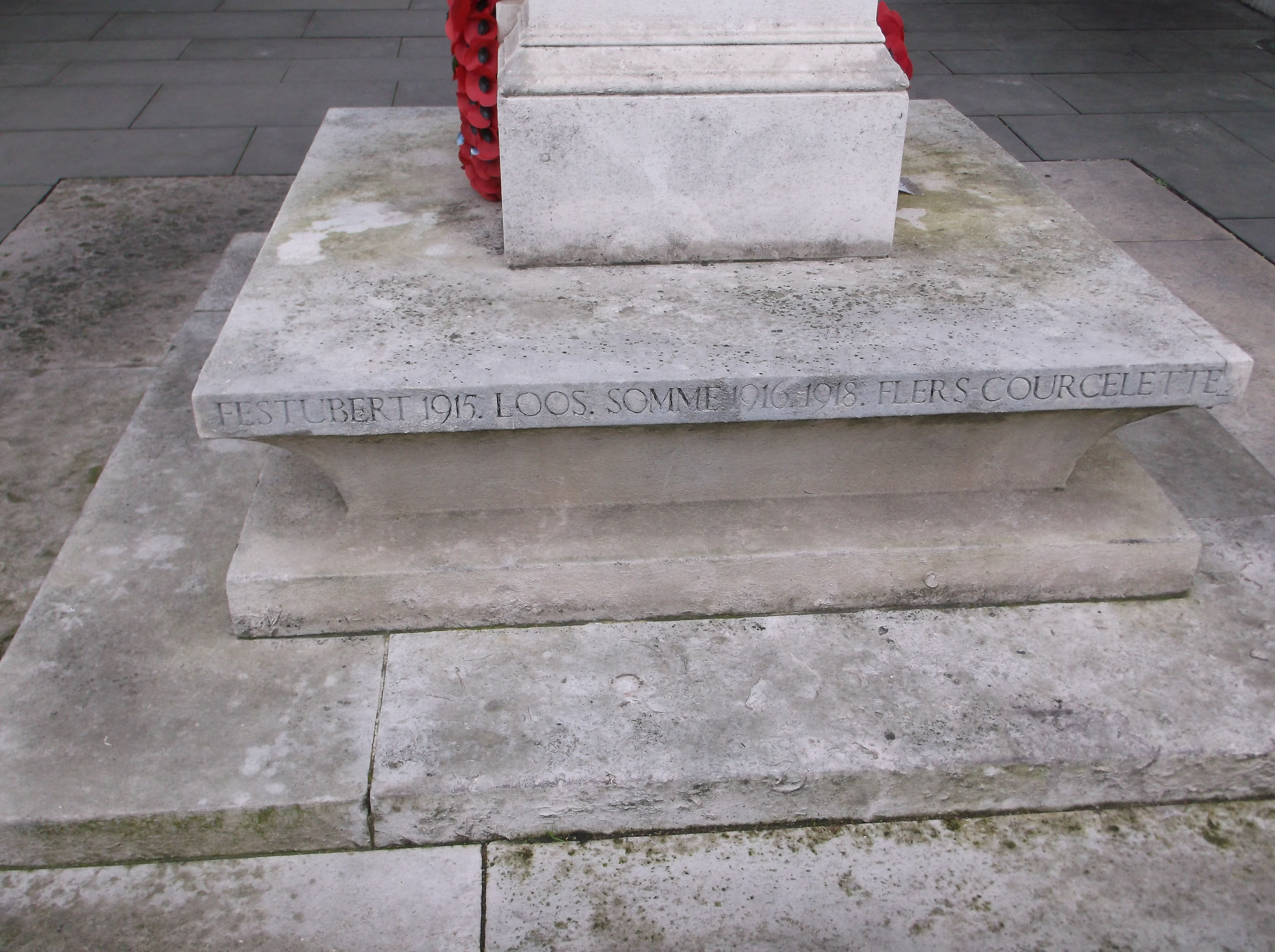 Civil Service Rifles Memorial by Edwin Lutyens at Somerset House, Strand, London